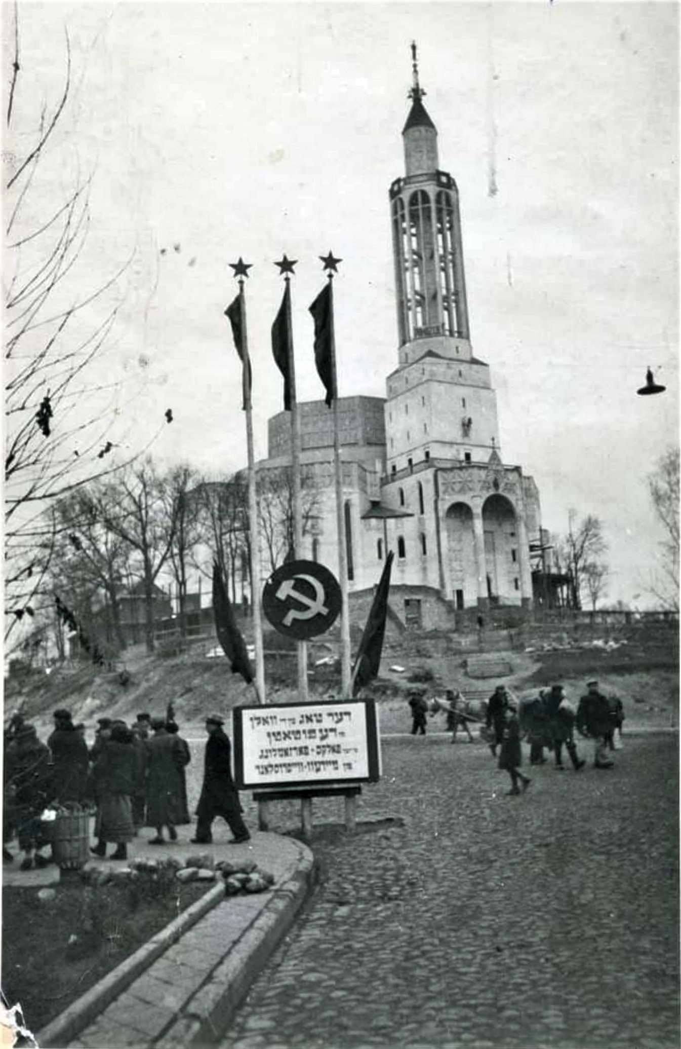 Yiddish election notice to the People's Council of Western Belarus, Białystok